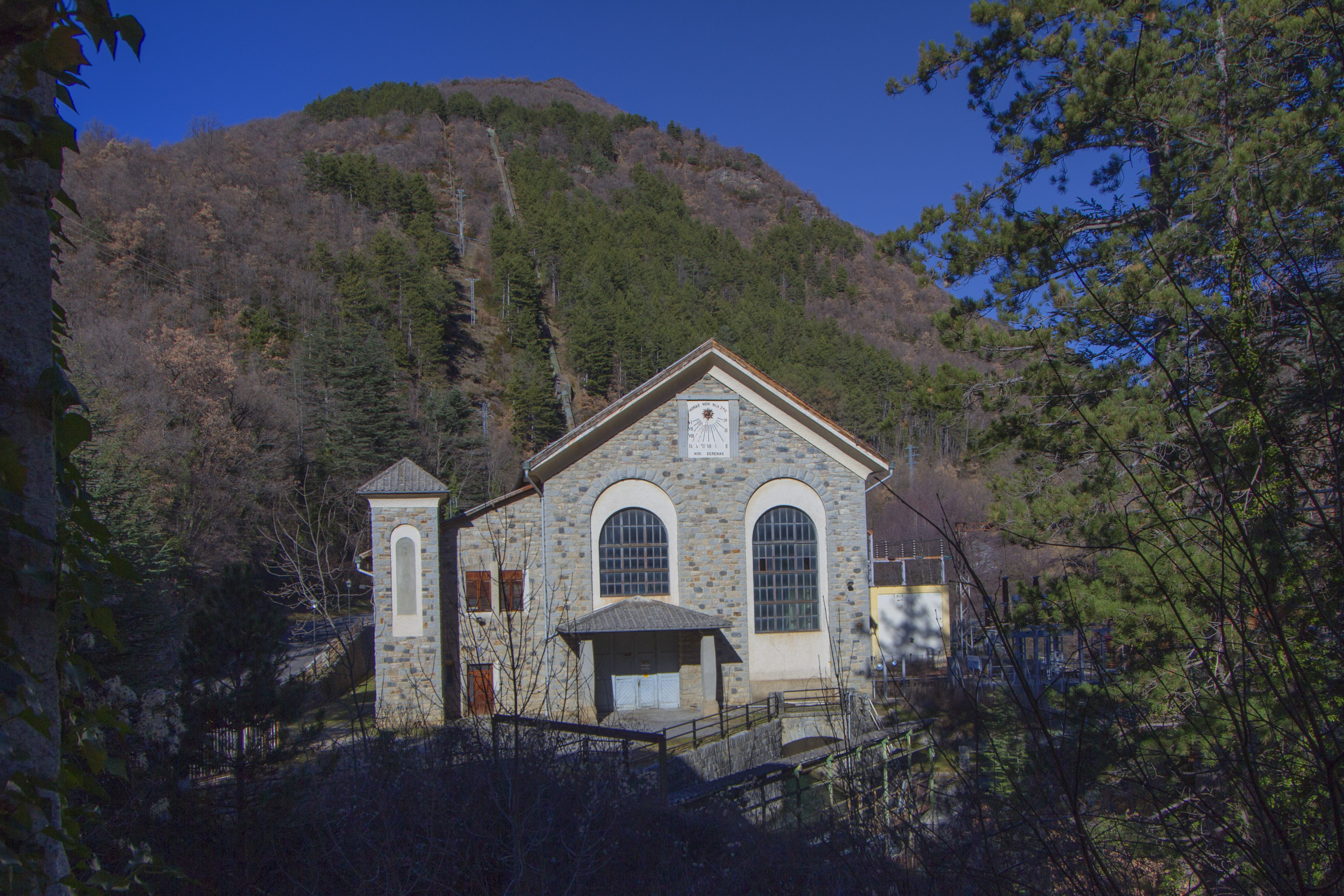 Molinos hydropwer plant. Main building south side and penstocks. Torre de Capdella (Catalan Pyrenees)